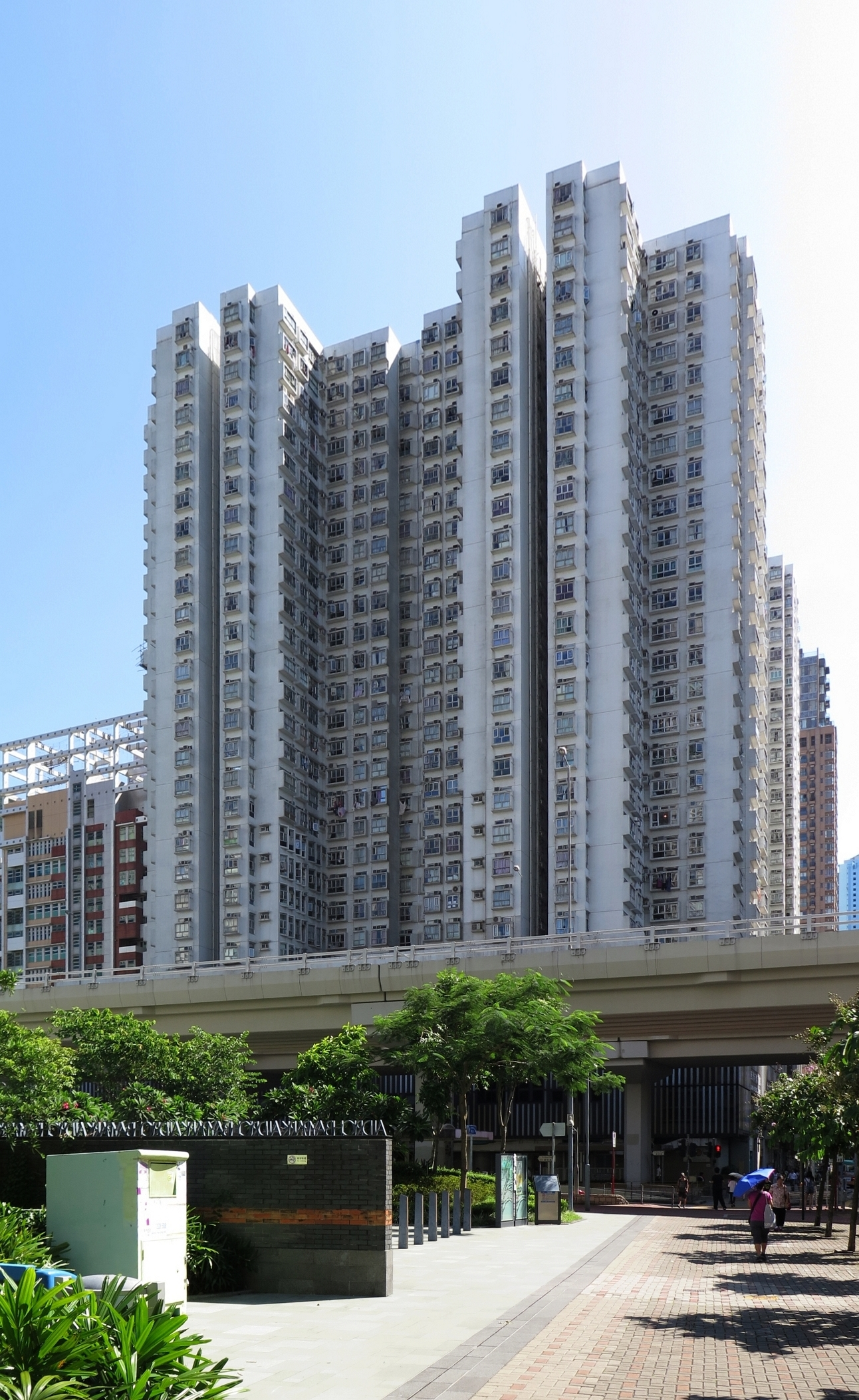 Felicity Garden, Sai Wan Ho, Hong Kong